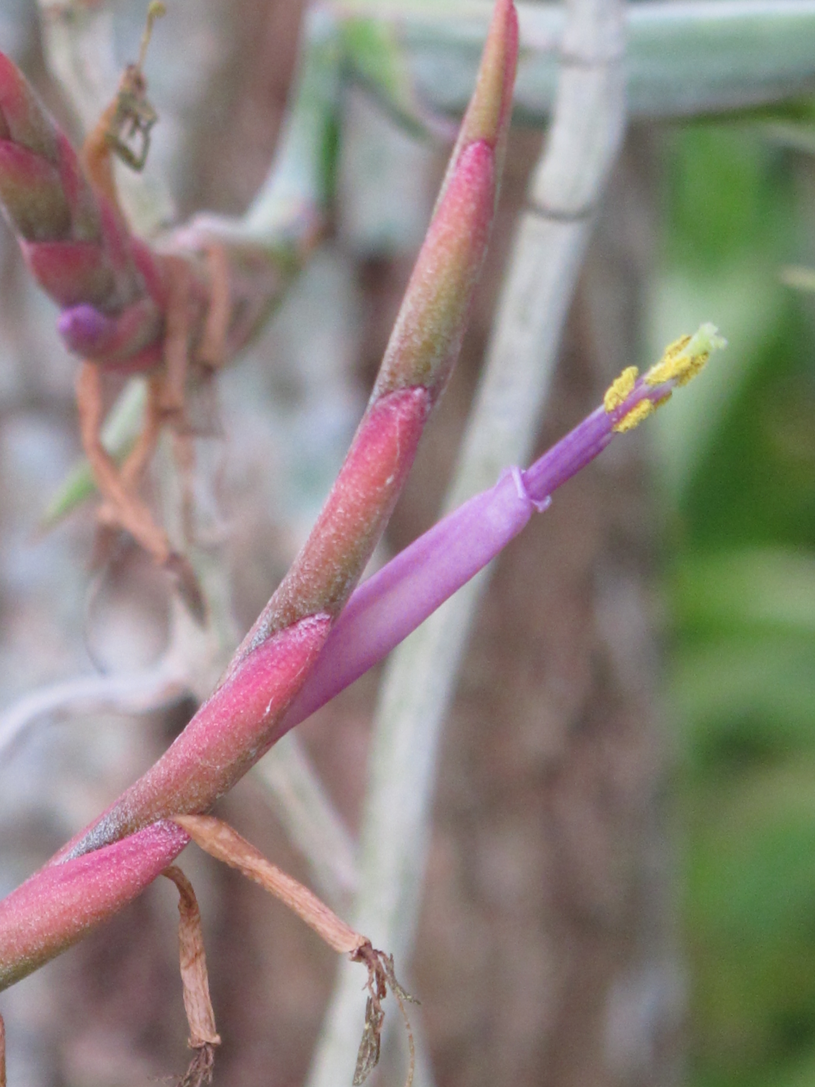 Tillandsia intermedia, cultivated, South Miami, Florida, USA.